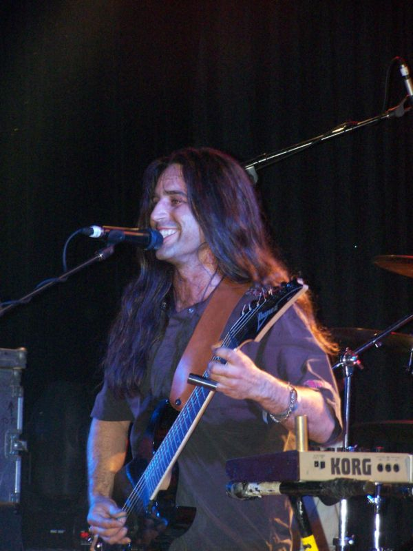 Lead vocalist Adam Agius from the heavy metal band Alchemist.